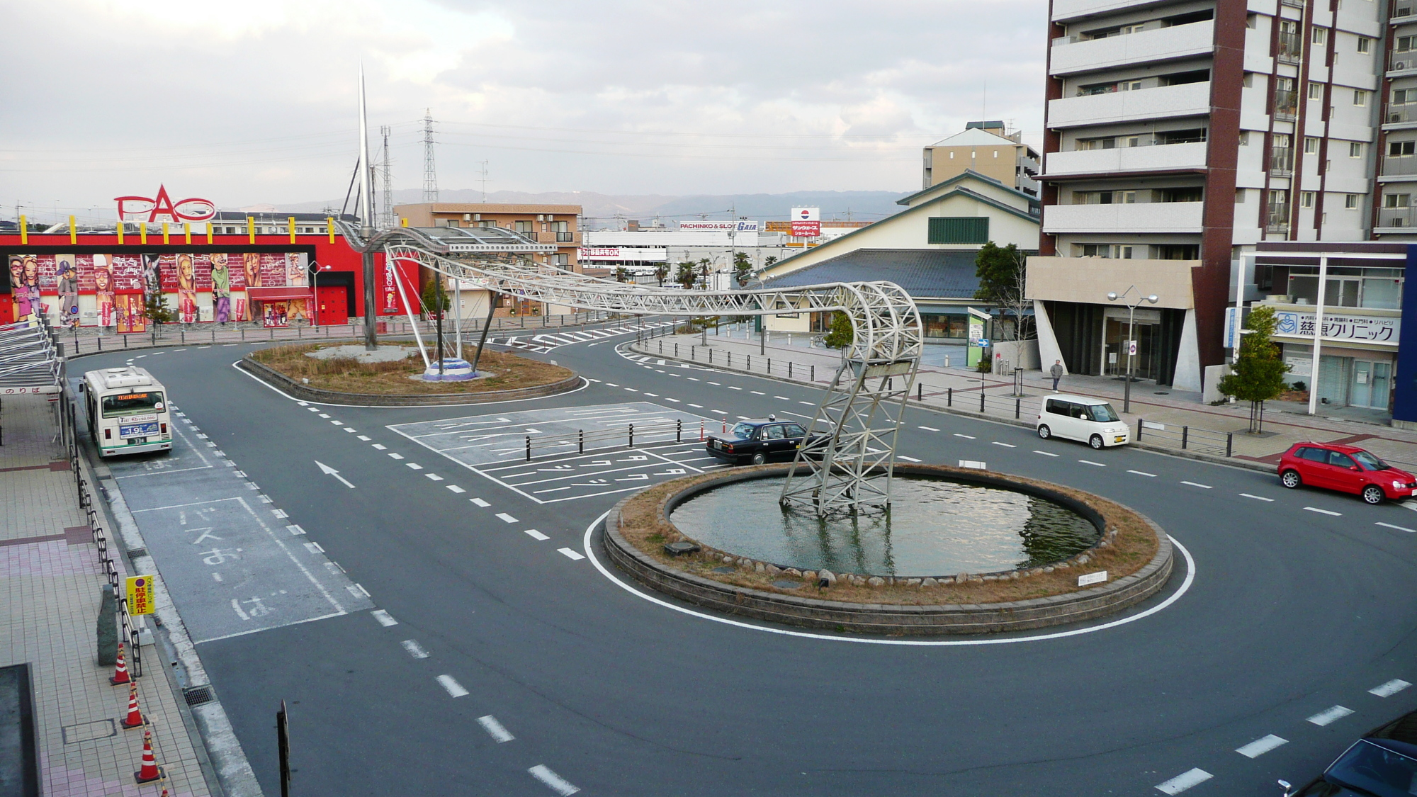 West Japan Railway,Kansai Main Line,Yamato Koizumi Station east square. / 関西本線大和小泉駅東口駅前広場